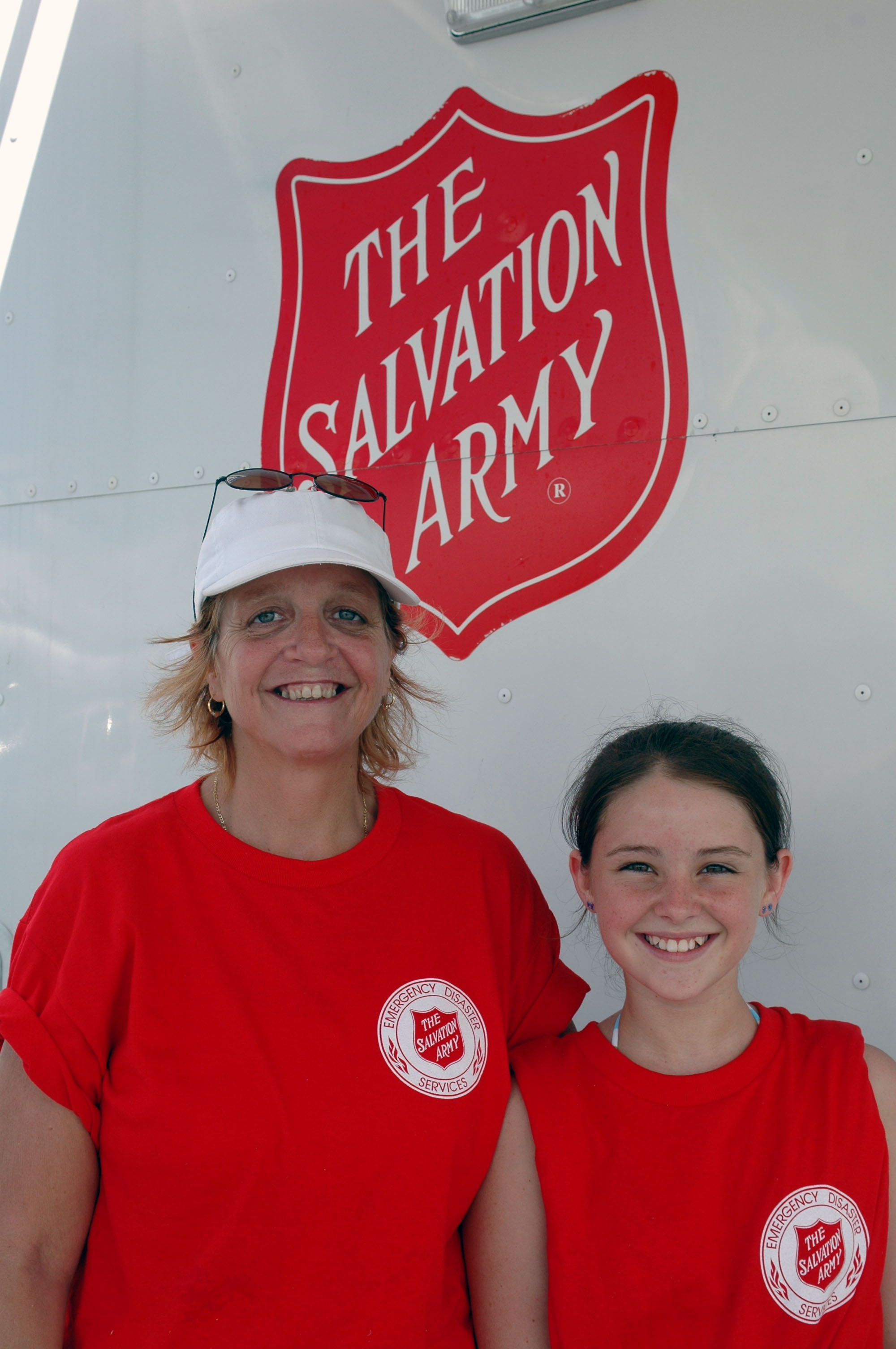 Cocoa, FL, September 10, 2004--Karen Henderson and granddaughter Chelsea Wise pose for the camera. They are helping serve meals for the Salvation Army at Byrd Plaza to residents affected by Hurricane Frances. FEMA Photo/Jocelyn Augustino